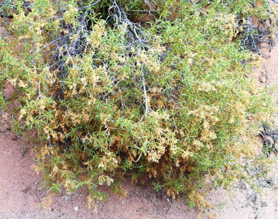 Galenia africana- also known as Kraalbos. A common indigenous pioneer plant in the Karoo that spreads on disturbed or overgrazed soil.